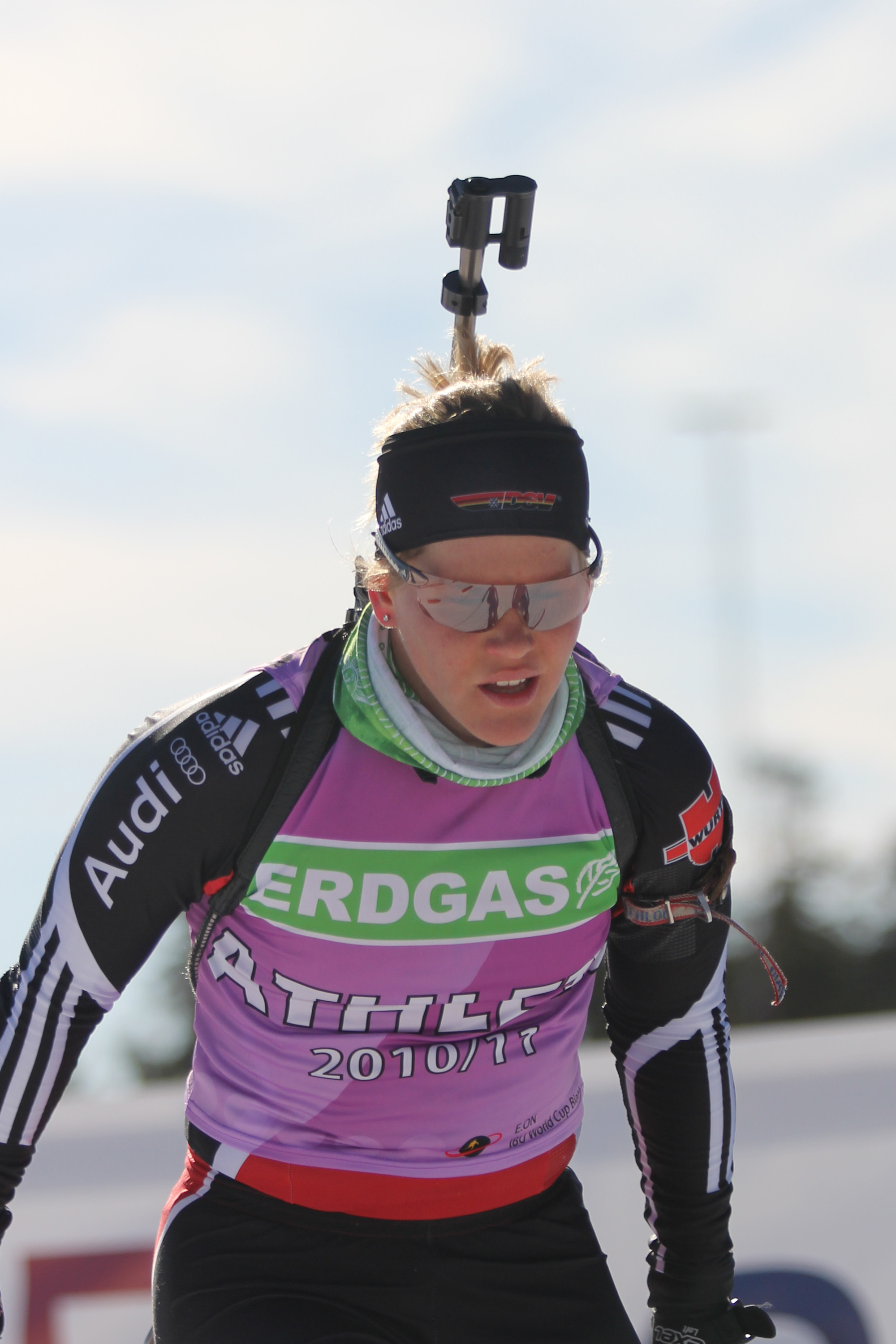 Nadine Horchler WC Oslo 2011